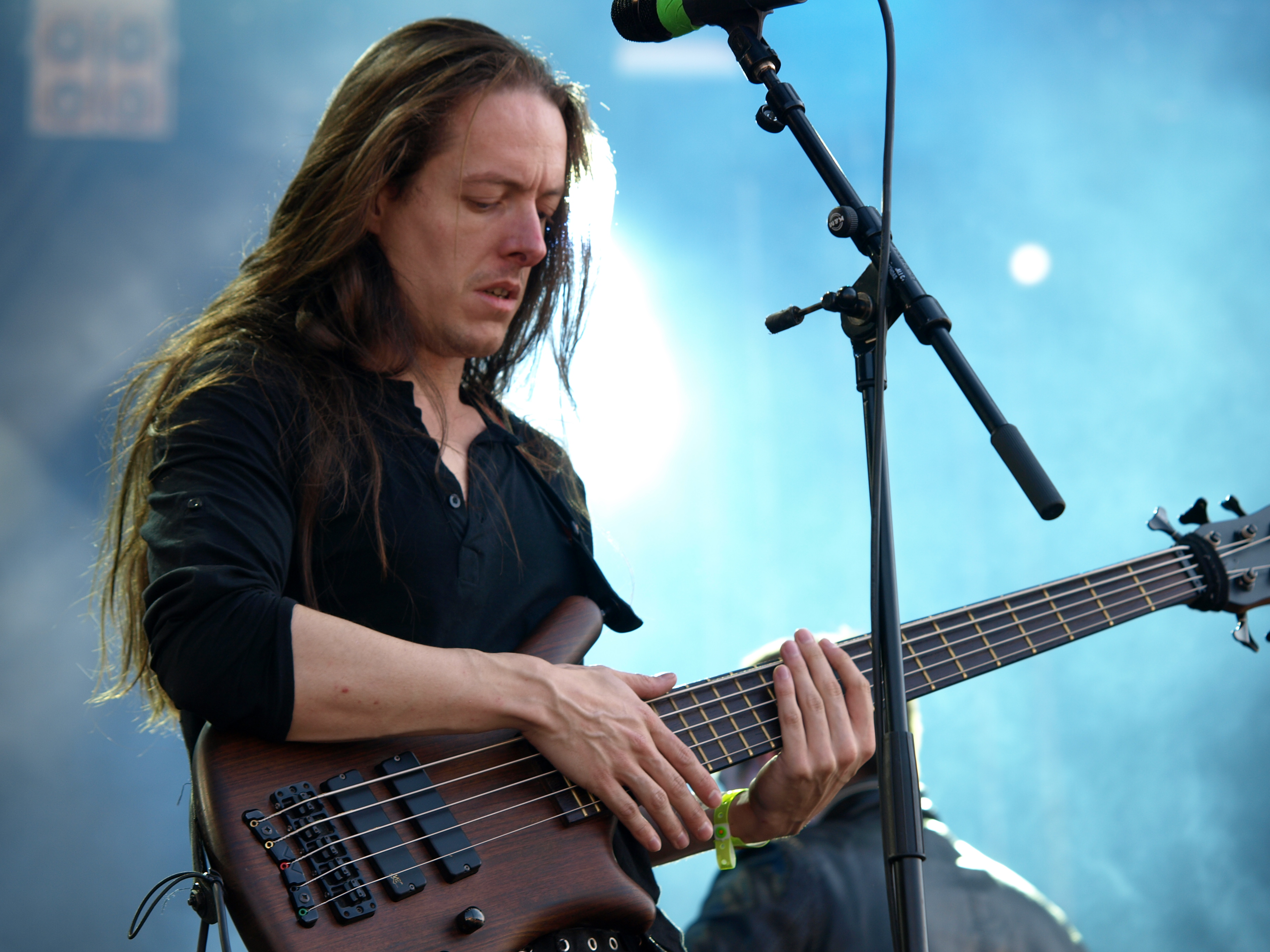 British band TesseractT live at Tuska Open Air 2013